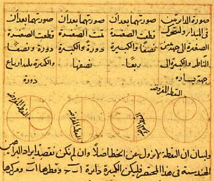 Tusi couple - 13th century CE sketch by Nasir al-Din Tusi. Generates a linear motion as a sum of two circular motions. Invented for Tusi's planetary model.